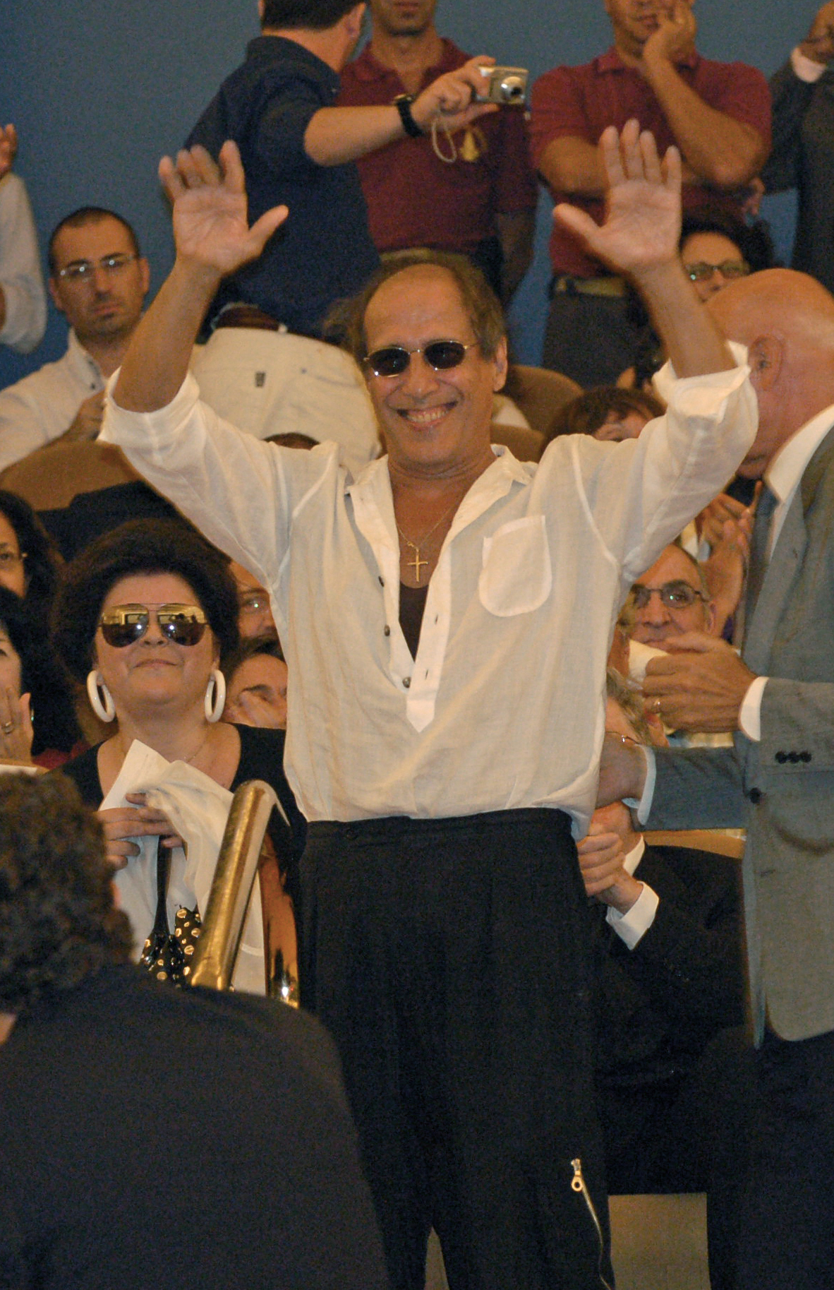 Adriano Celentano, famous Italian actor and singer TUTTO UBRIACO. 2008.